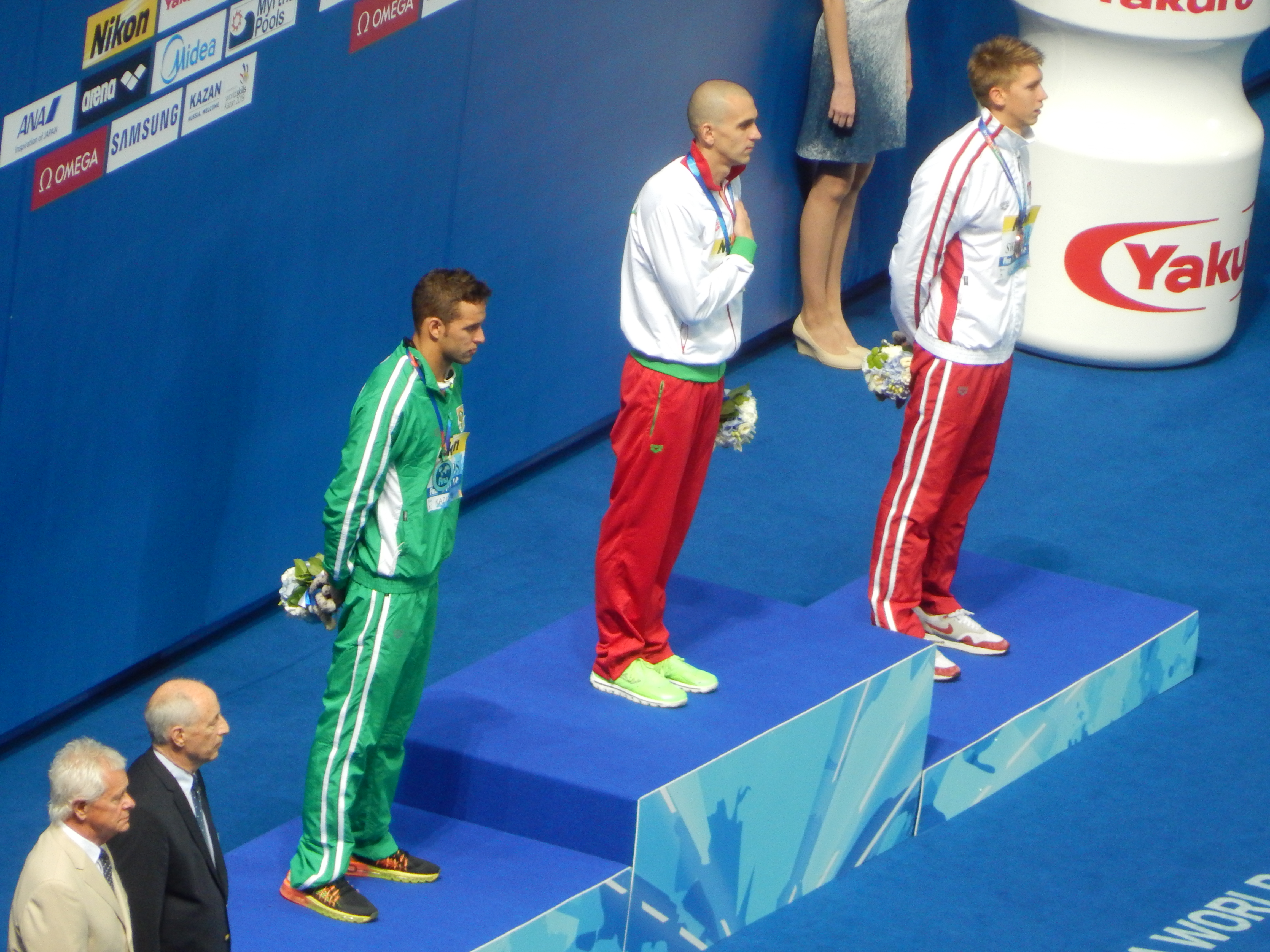 Medallists at the men's 200 metres butterfly in Kazan 2015